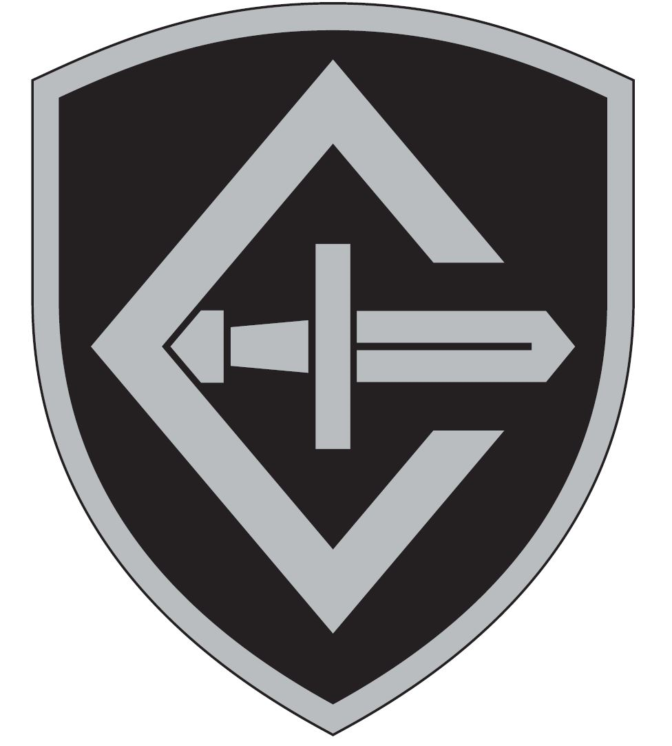 Insignia of the Special Operations Group (Erioperatsioonide Grupp, EOG)